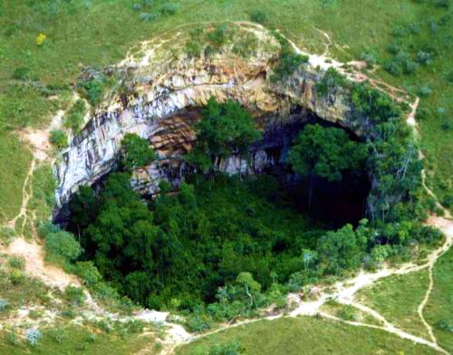 Photos edited taken from Buraco das Araras, MS - Brazil